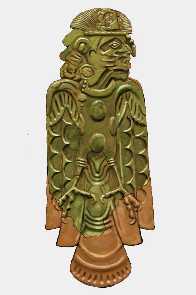 An illustration of a Mississippian culture anthropomorphic human headed avian repoussé copper plate found near Malden, Missouri in 1906. One of eight plates found in the Wulfing cache, this one is designated Plate A. Unreconstructed area measures 30 centimetres (12 in) in length by 13.5 centimetres (5.3 in) in width and weighing 84 grams (3.0 oz).[1] Reconstructed areas based on Malden plate F and the Upper Bluff Lake avian plate, as all three are thought to have been made by the same artist or workshop.[2]